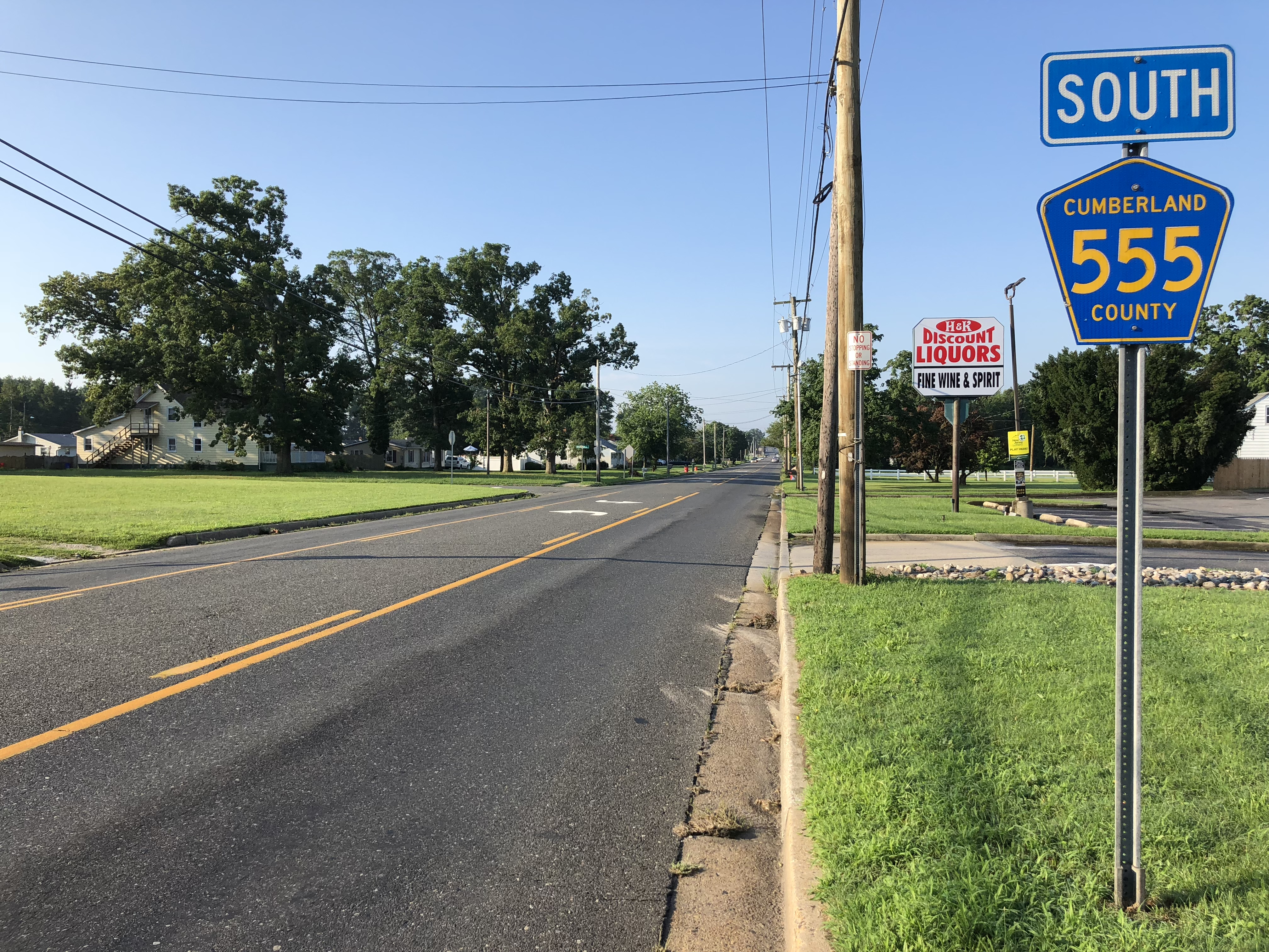 View south along Cumberland County Route 555 (Main Road) just south of Cumberland County Route 619 (Wheat Road) in Vineland, Cumberland County, New Jersey